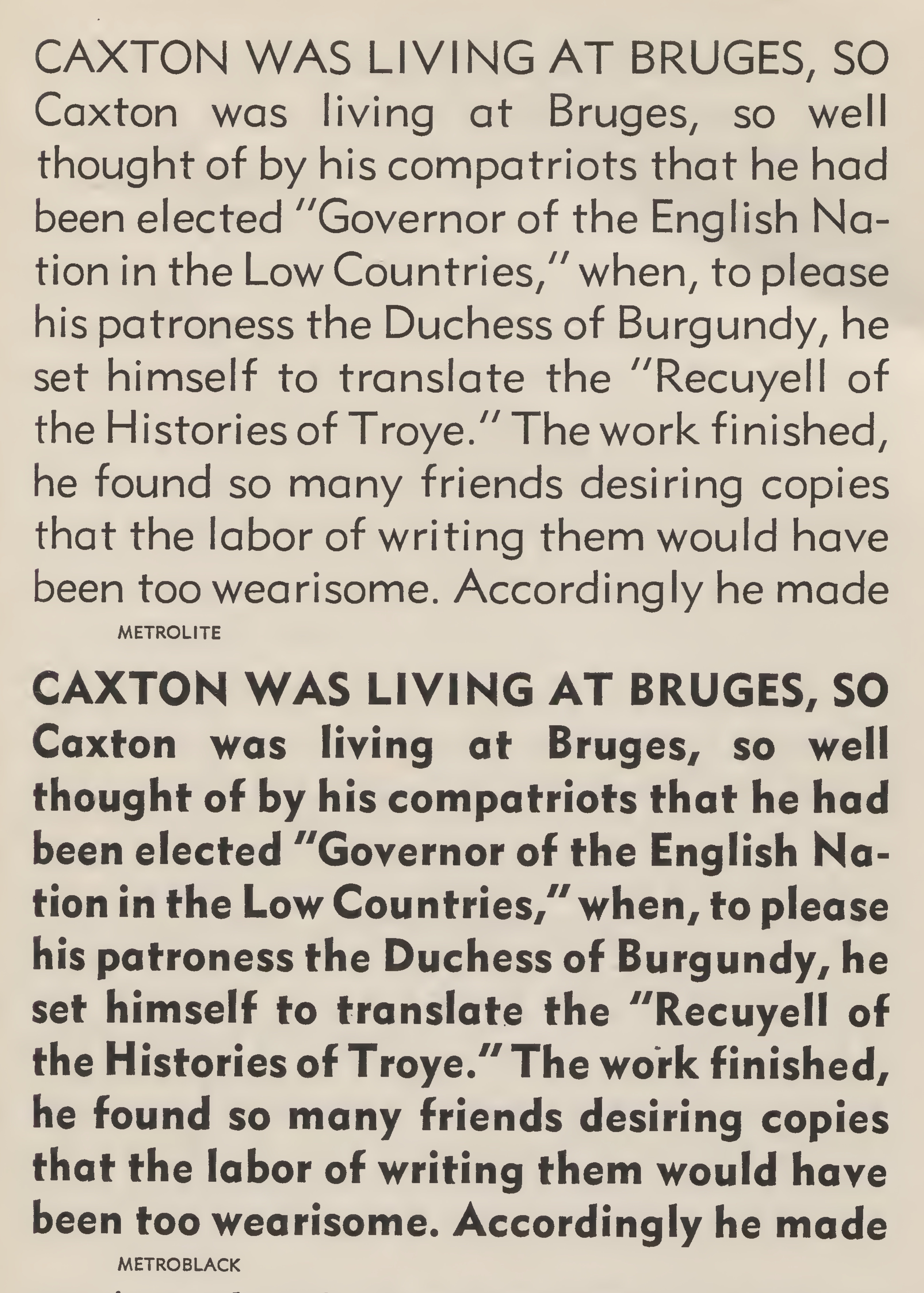 Dwiggins' Metrolite and Metroblack fonts, geometrics types of the style popular in the 1930s. Shown in a Linotype brochure promoting their expertise in creating highly legible fonts. Metro is shown in the revised form that saw commercial release, with the 'M', 'a' and other characters revised to resemble the highly successful Futura.